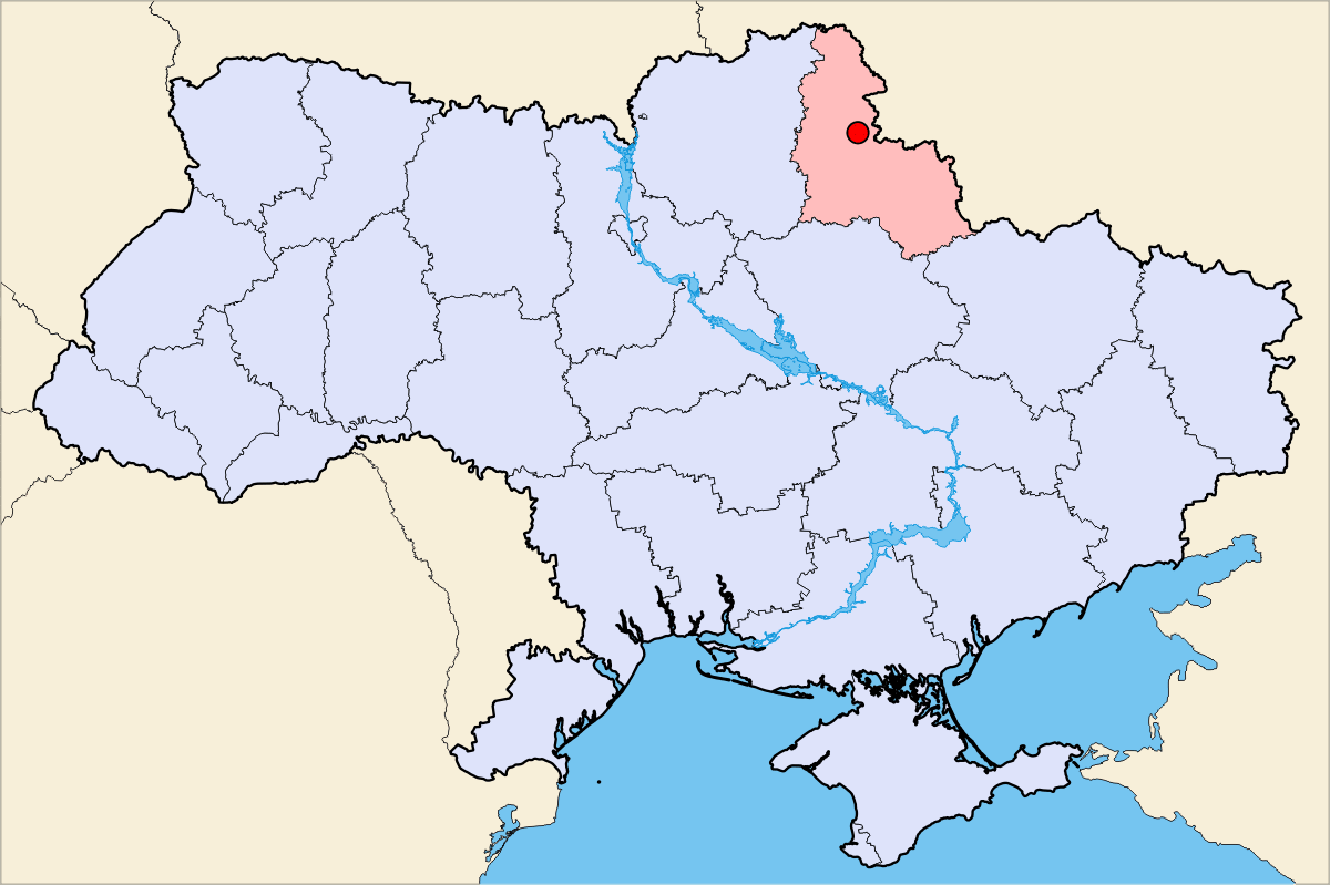 Description = Putyvl geographical position Source = own work, Skluesener Date = 22.01.2006 Author = User:DDima Credits = Colours chosen according to a map of steschke